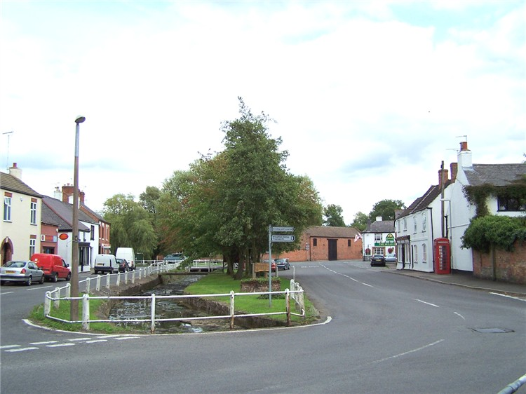 Cosby village centre taken by kev747